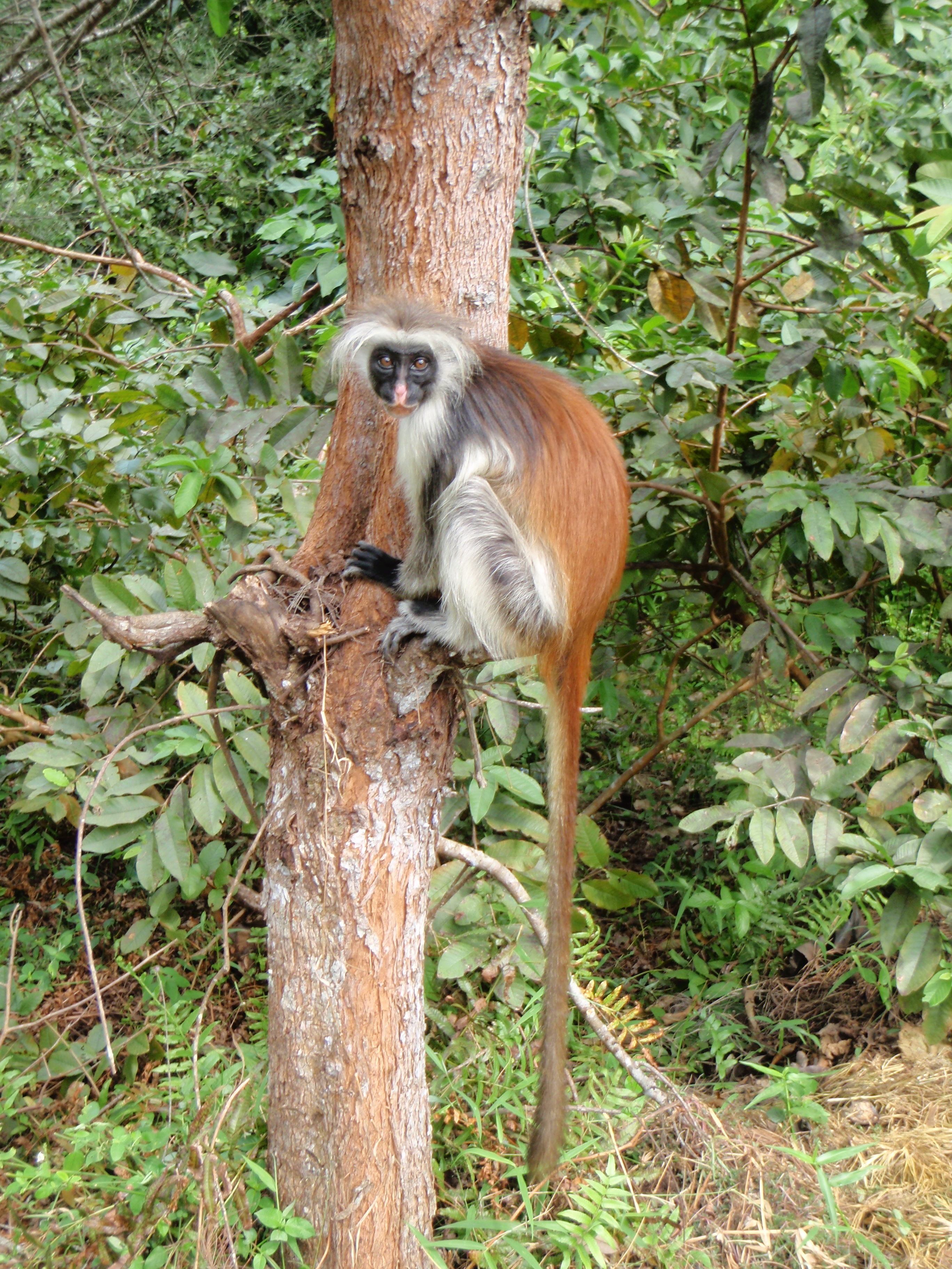 Red Colobus monkey in Jozani forest. Endemic to Zanzibar.